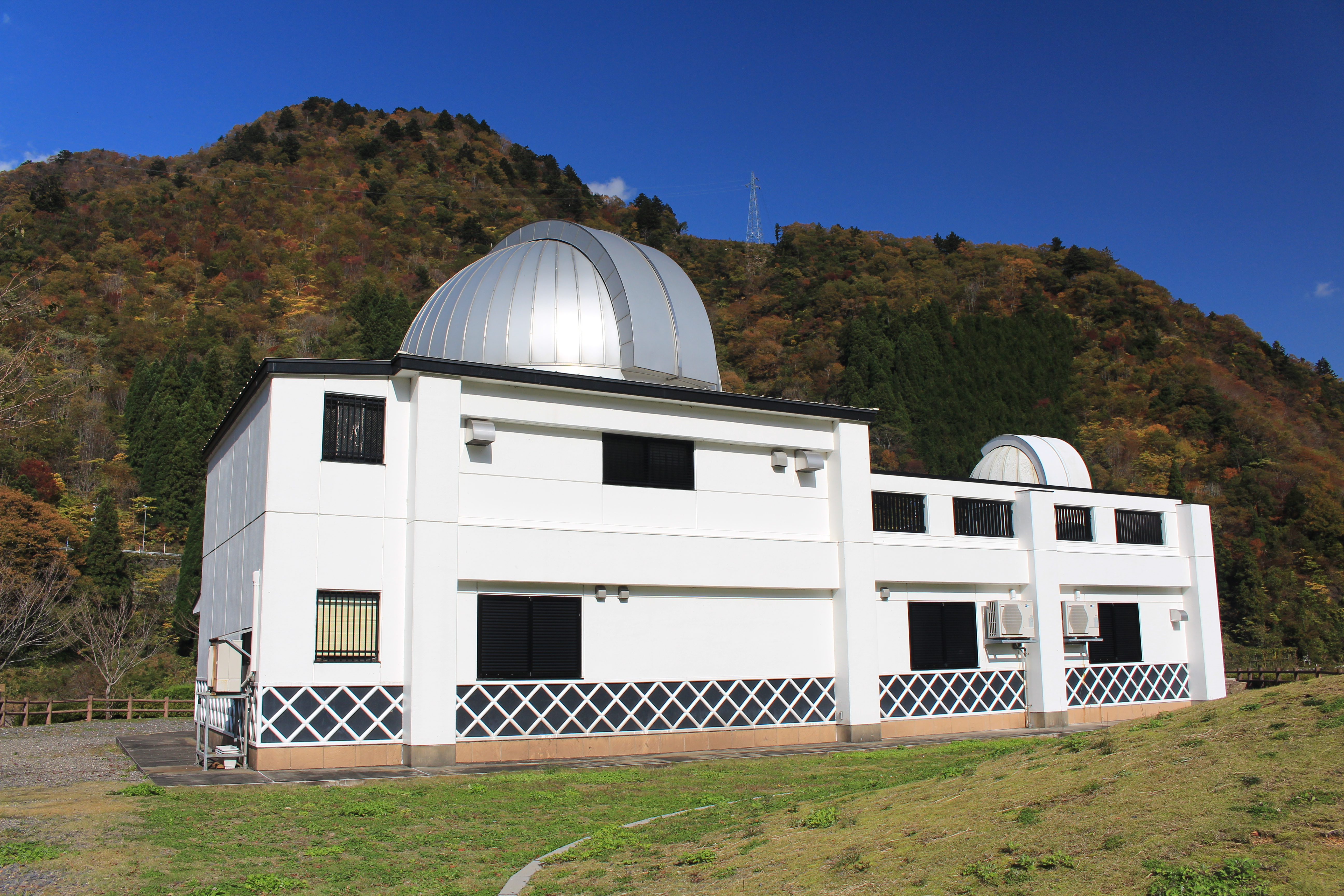 Nishimino Observatory, in Ibigawa, Gifu prefecture, Japan.